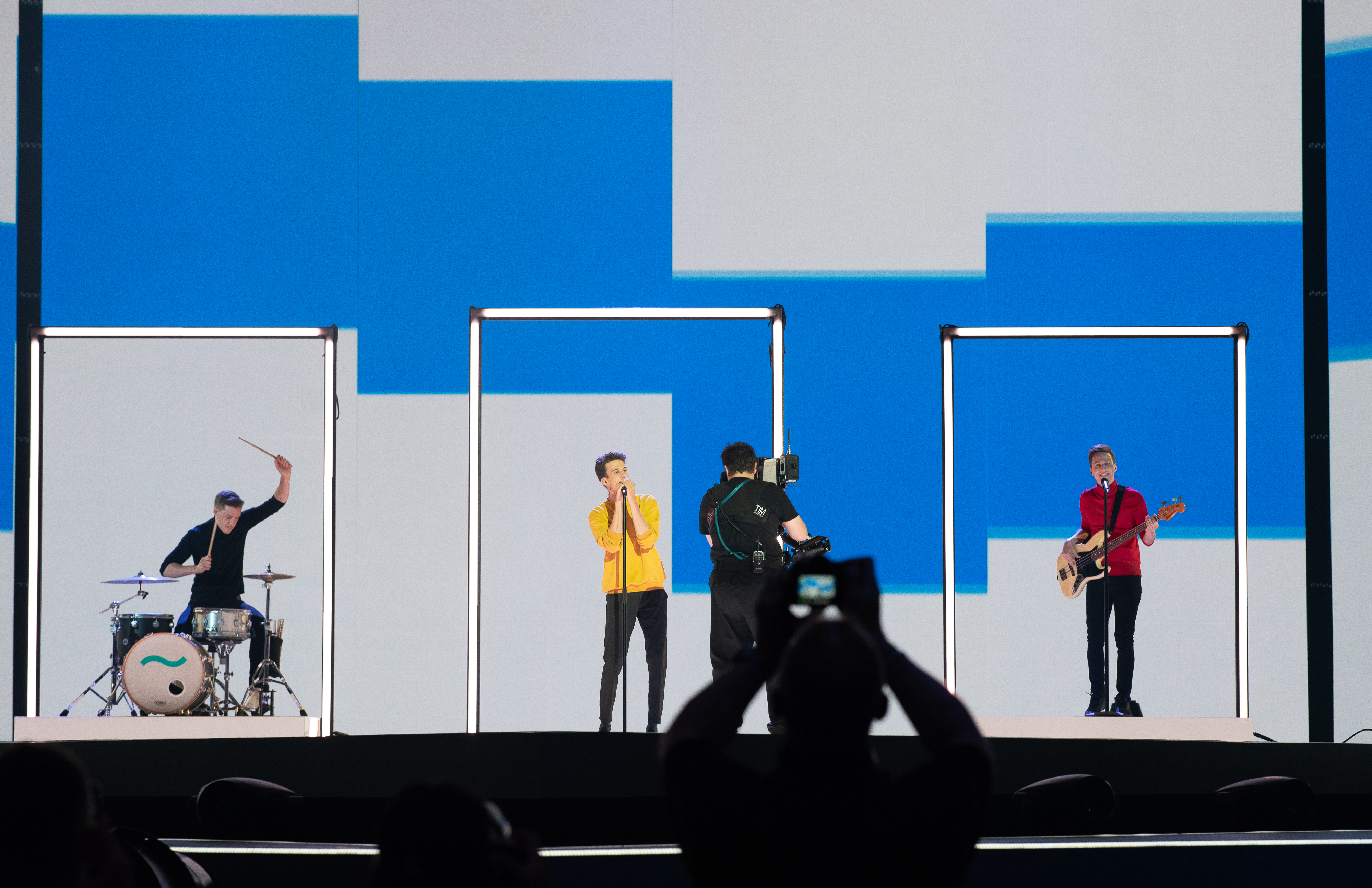 At the 2019 Eurovision Song Contest Semi-final 1 dress rehearsal